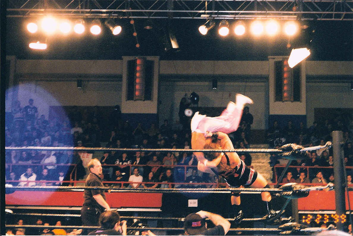 ECW @ Westchester County Center in White Plains, NY TNN TV Taping - 12.23.99